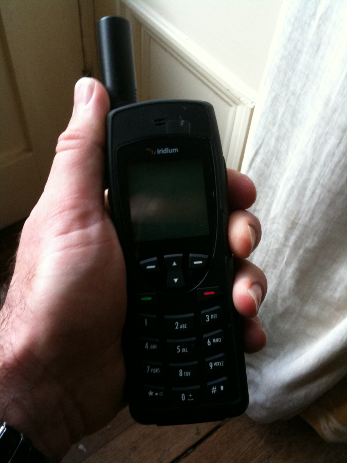 Iridium 9555 Phone